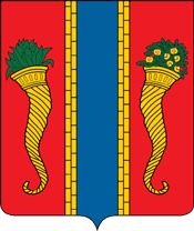 Novaya Ladoga (Leningrad oblast), coat of arms